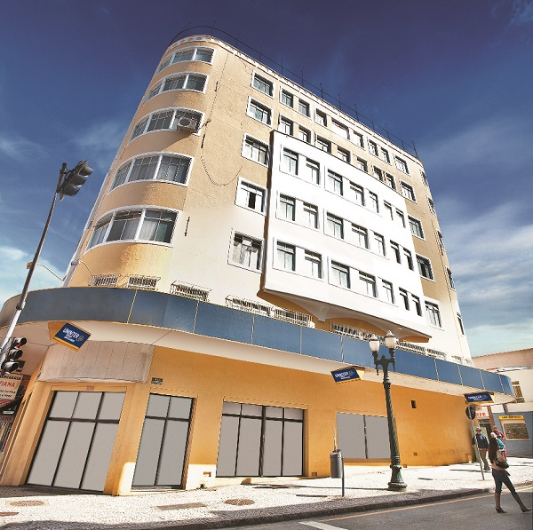 Uninter - Campus Tirandentes